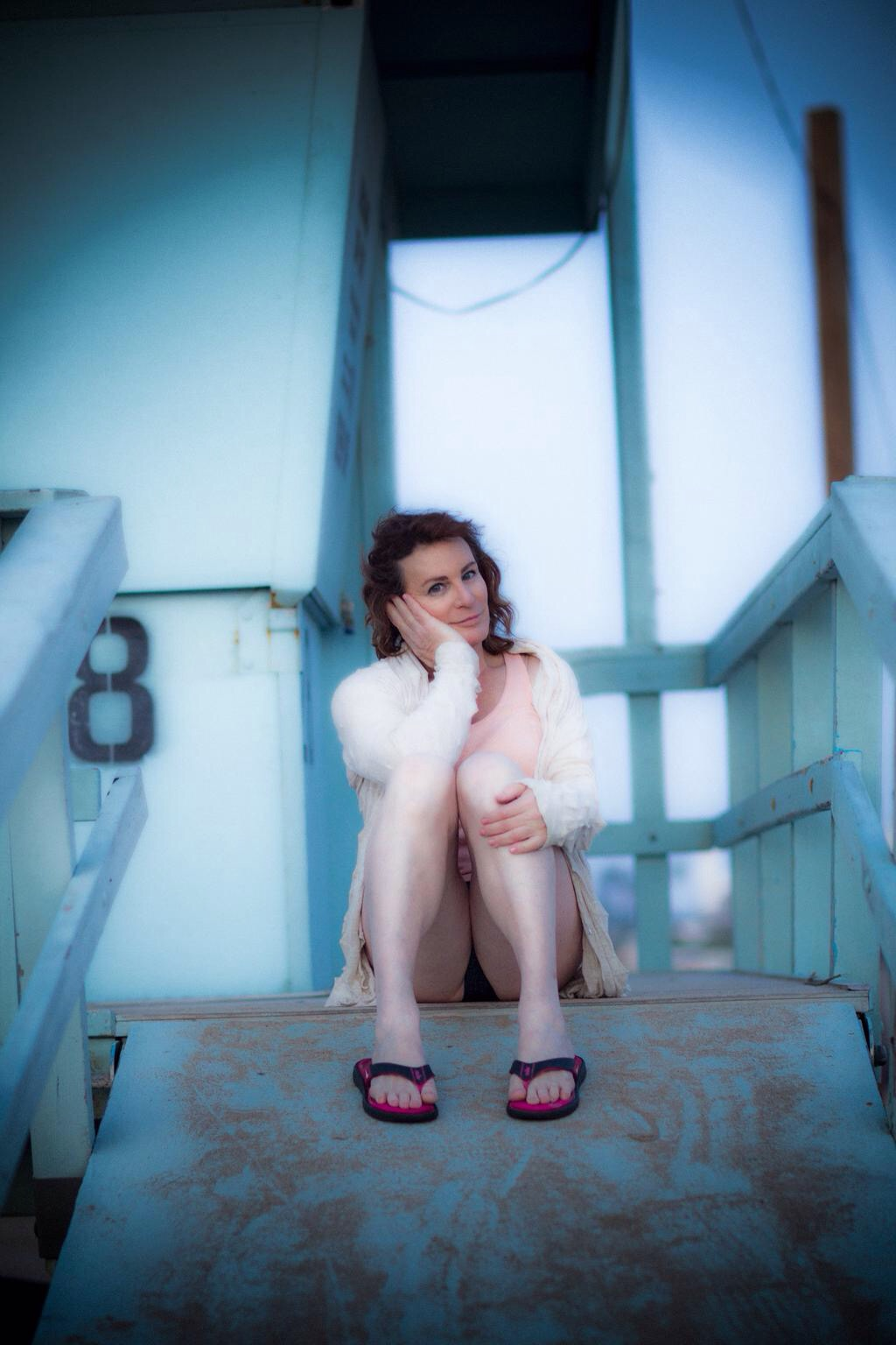 Zoey Tur at Beach